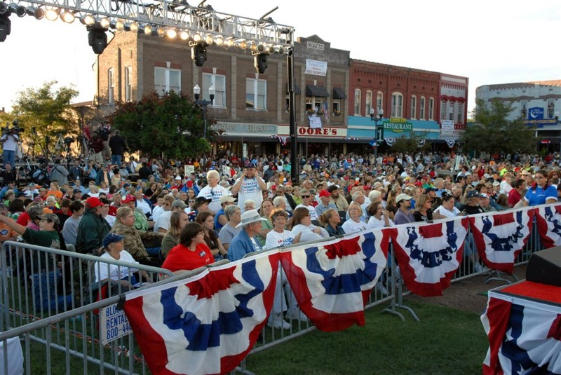 Crowd at the Fred Thompson Rally in Lawrenceburg, Tennessee